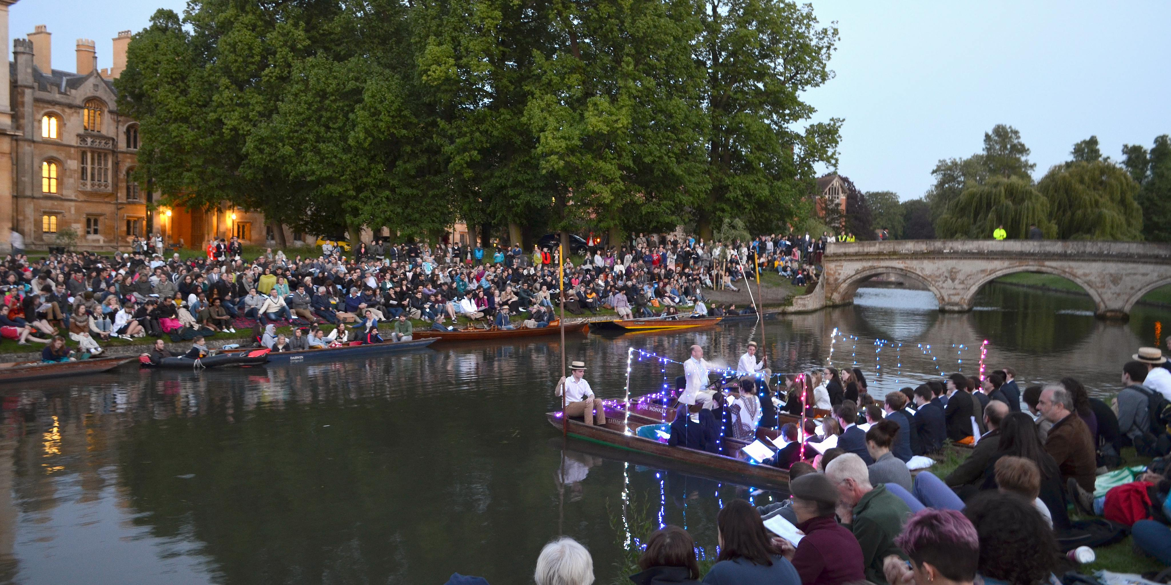 Cambridge University Trinity College Choir (conducted by Trinity College's Director of Music, Stephen Layton) Singing on the River Cam on 5 June 2016.